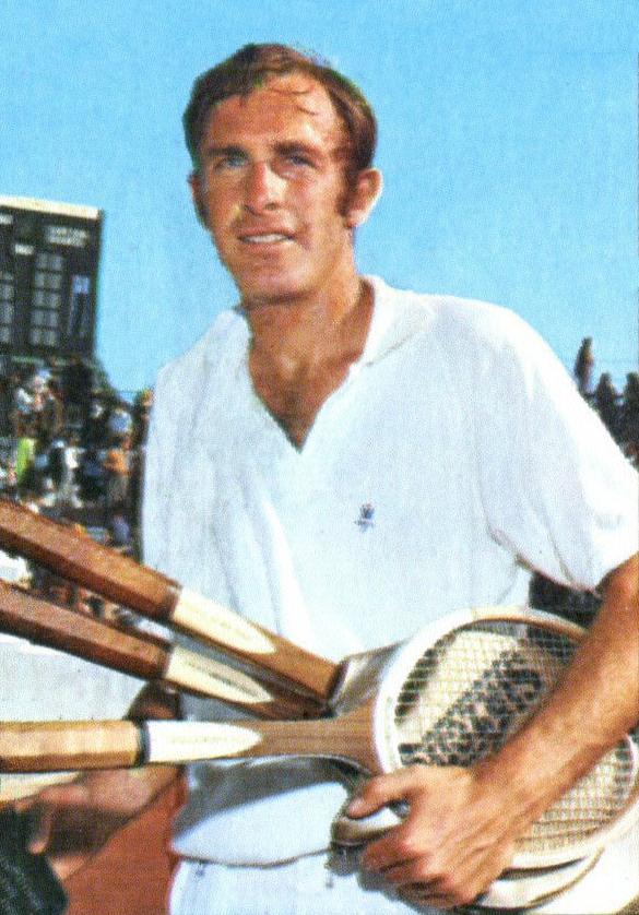 CAMPIONI DELLO SPORT 1969/70- n. 401 - J. NEWCOMBE (AUS)- TENNIS